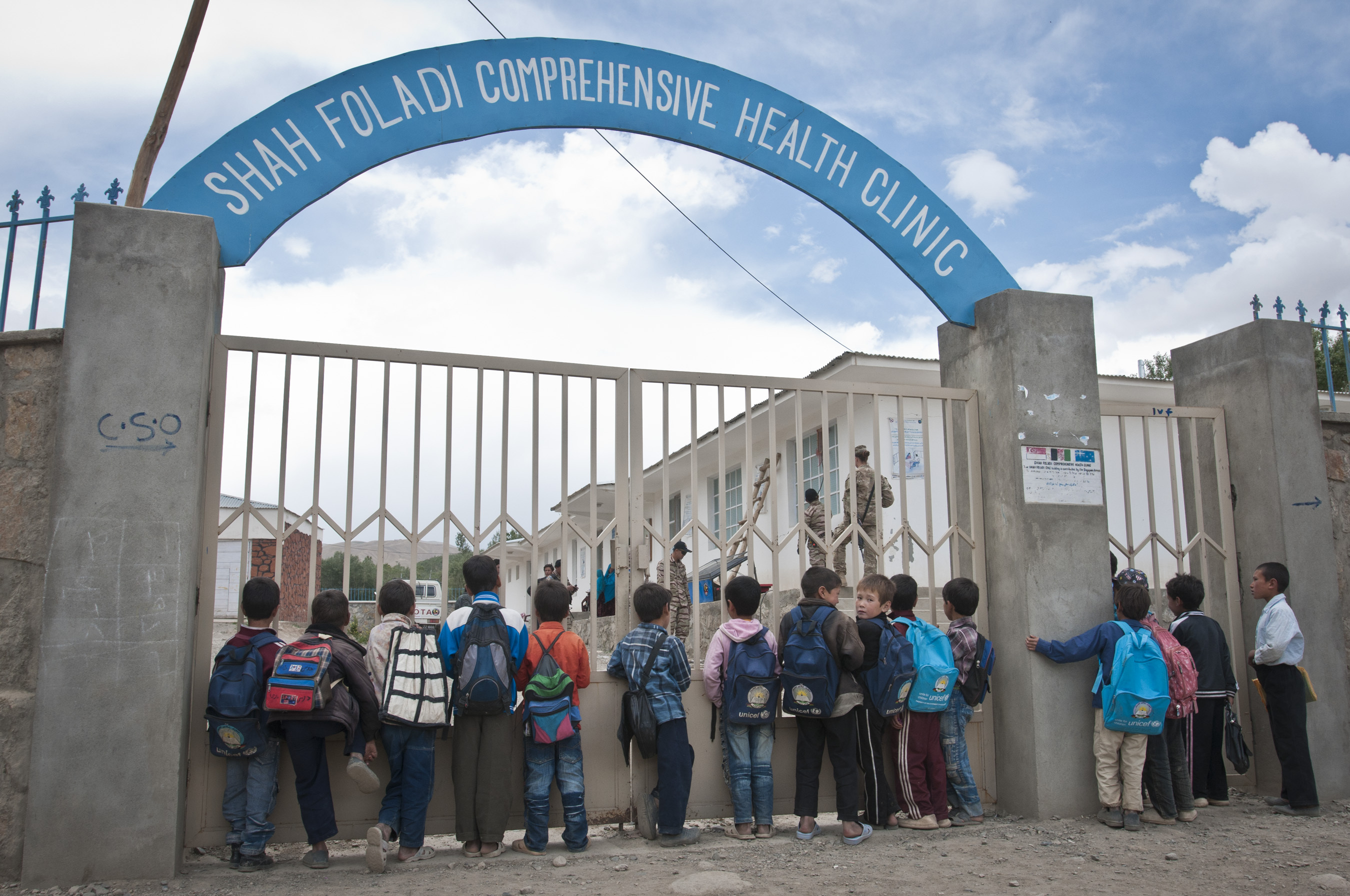 A group of local boys watch as soldiers from the Bamyan Malaysian Contingent, which is part of the Bamyan Provinicial Reconstruction Team, install a solar panel on a free clinic near the town of Bamyan June 18, 2012. The Malaysian Contingent in Bamyan has a goal of standing up 50 clinics and schools in the province during their six-month deployment. (Photo ID: 607640)